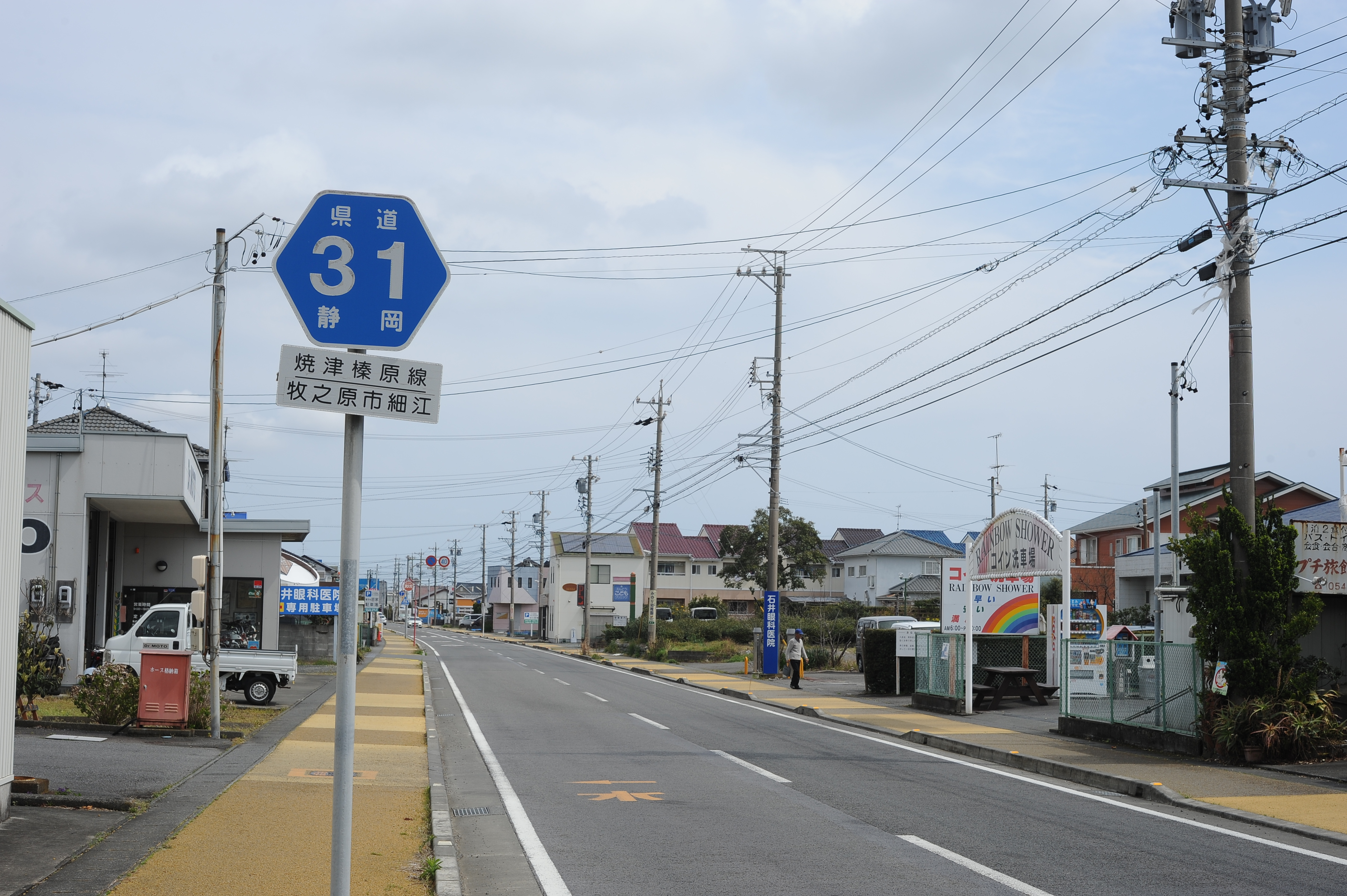 Shizuoka Prefectural Route 31, Makinohara, Shizuoka